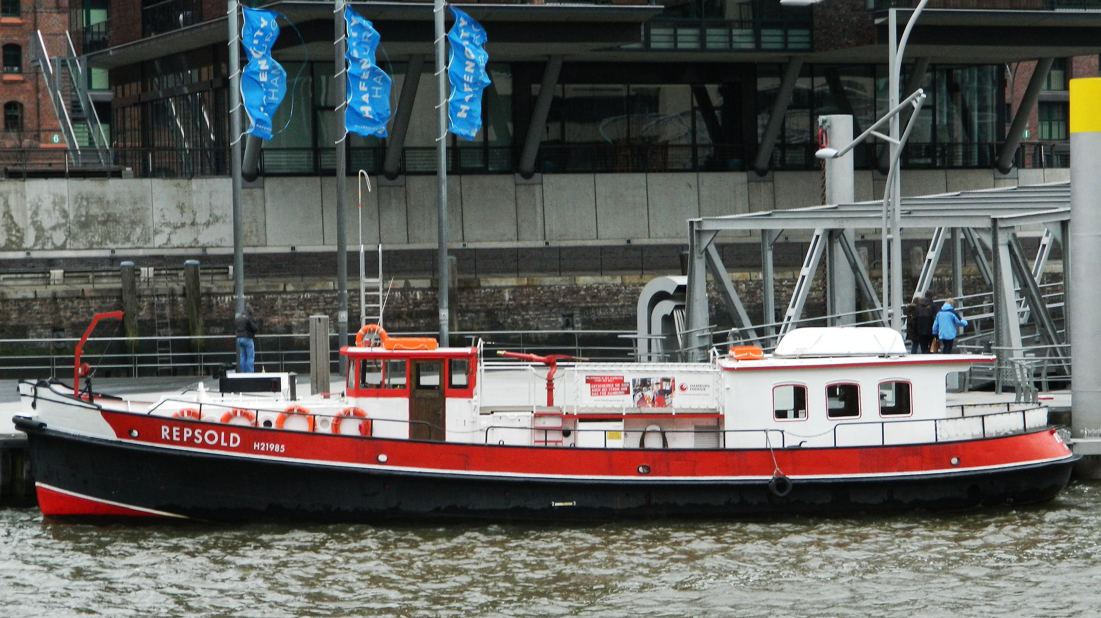 Repsold